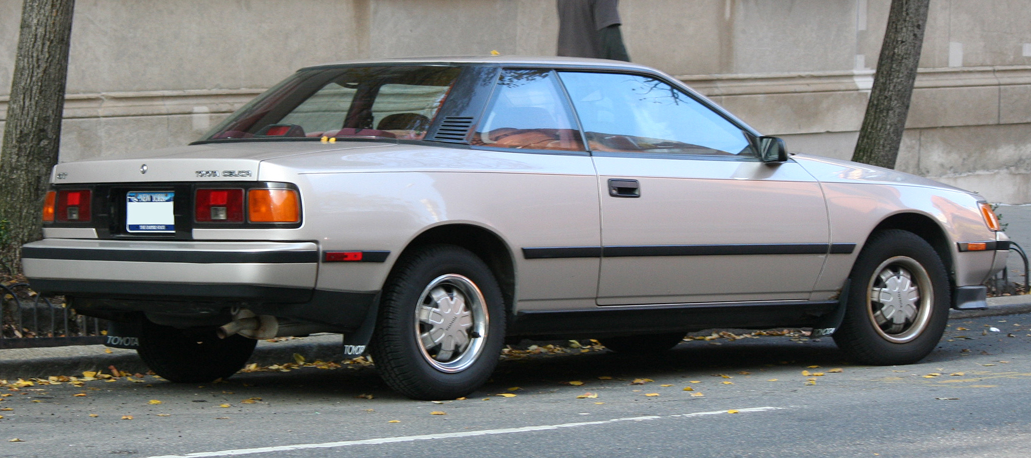 Rear view of 1986-1987 T160 series toyota Celica GT Coupé (either ST161 or ST162)